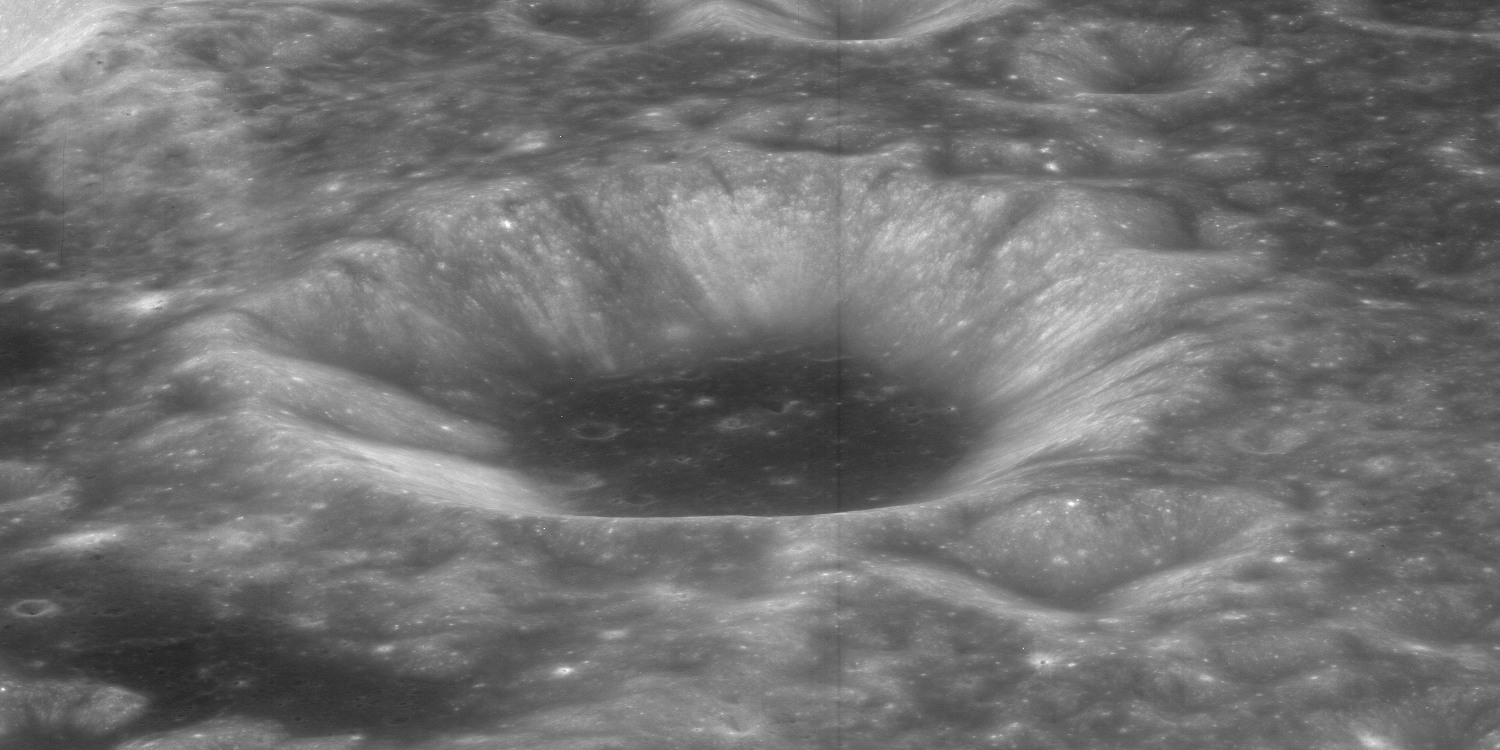 Oblique view facing south of Townley crater, on the moon.